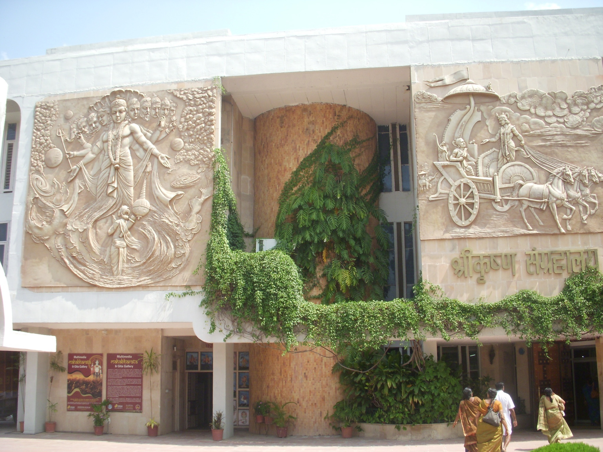 Krishna museum